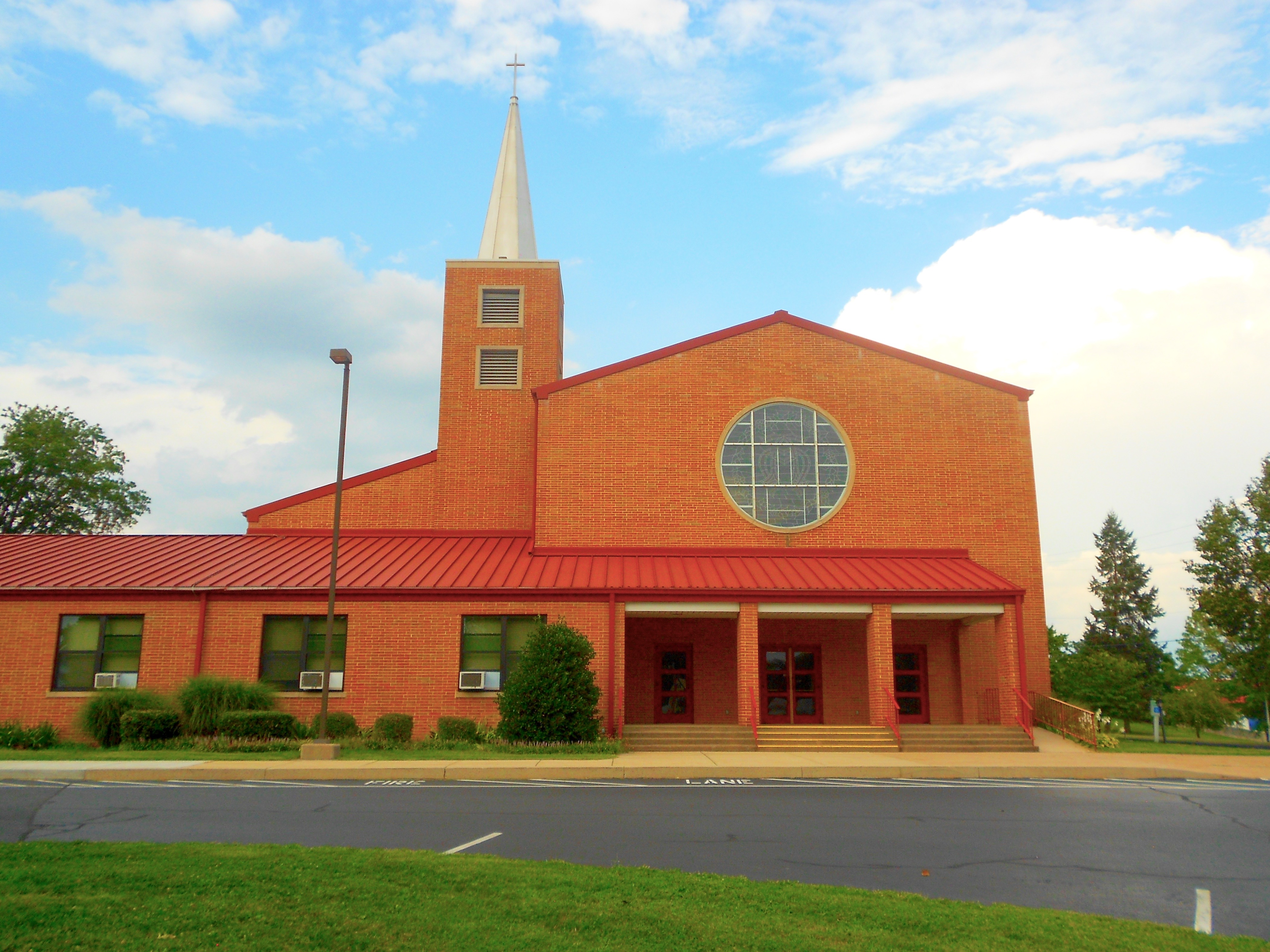 Colonial Park United Church of Christ in Colonial Park, Lower Paxton Township, Dauphin County, Pennsylvania (behind the mall)